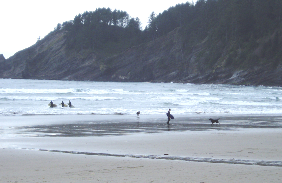 Oswald West State Park, Oregon Short Sands Beach, Surf Location. Cape Falcon in the background.